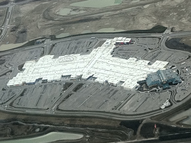 Aerial view of the CrossIron Mills shopping center